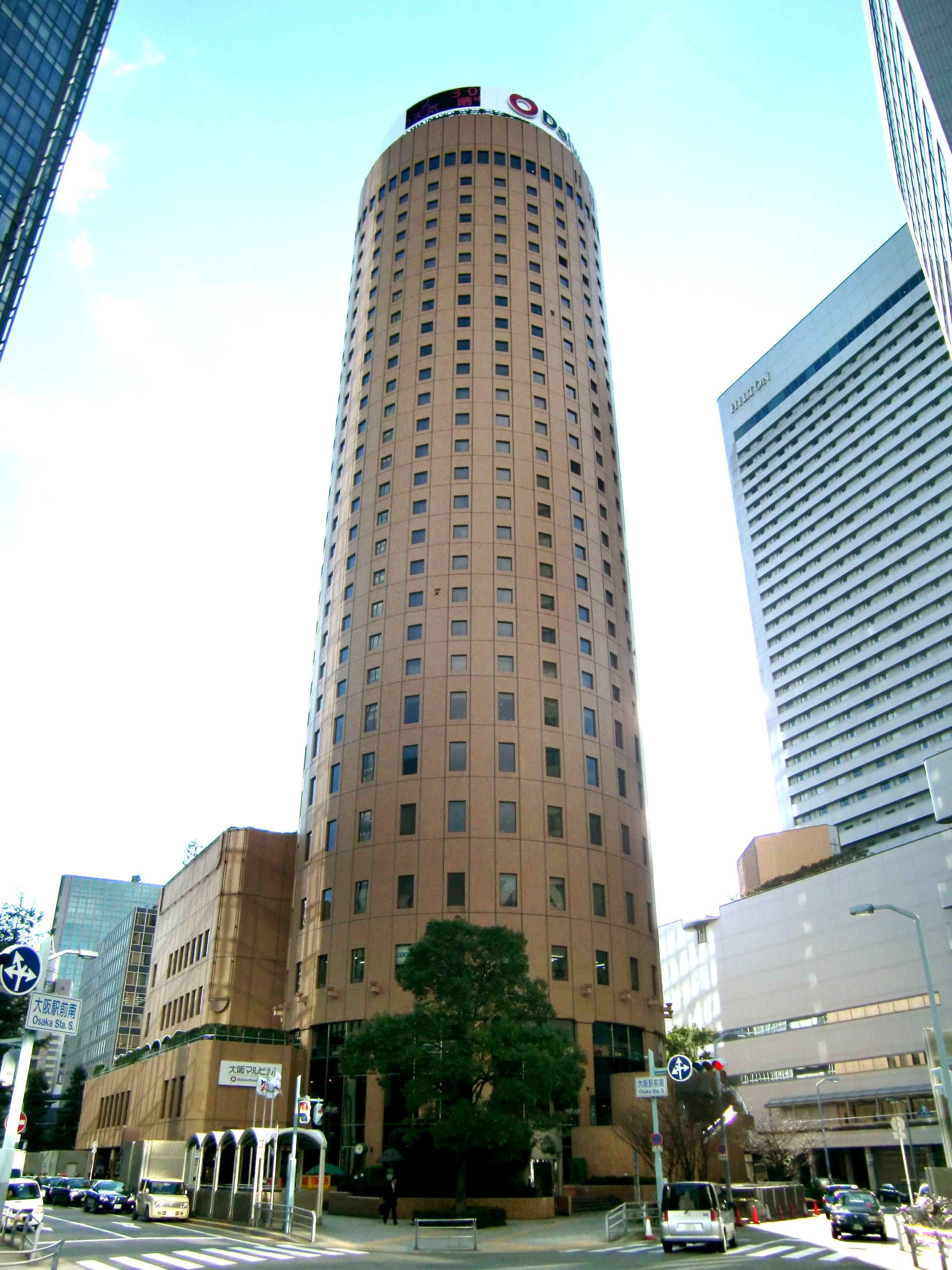 Osaka Marubiru,1-9-20 Umeda Kita-Ku Osaka-City Osaka Japan.